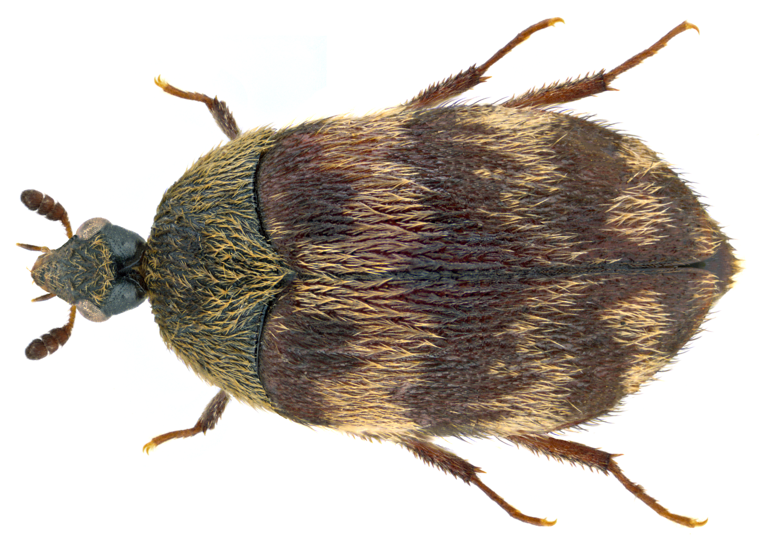 Family: Dermestidae Size: 4,0 mm (3,0-4,0 mm) Origin: North Africa, South Europe Location: Morocco, Marrakech, environment Hotel Sangho leg. U.Schmidt, 25.IV.-1.V.1995; det. J.Háva, 2013 Photo: U.Schmidt, 2013